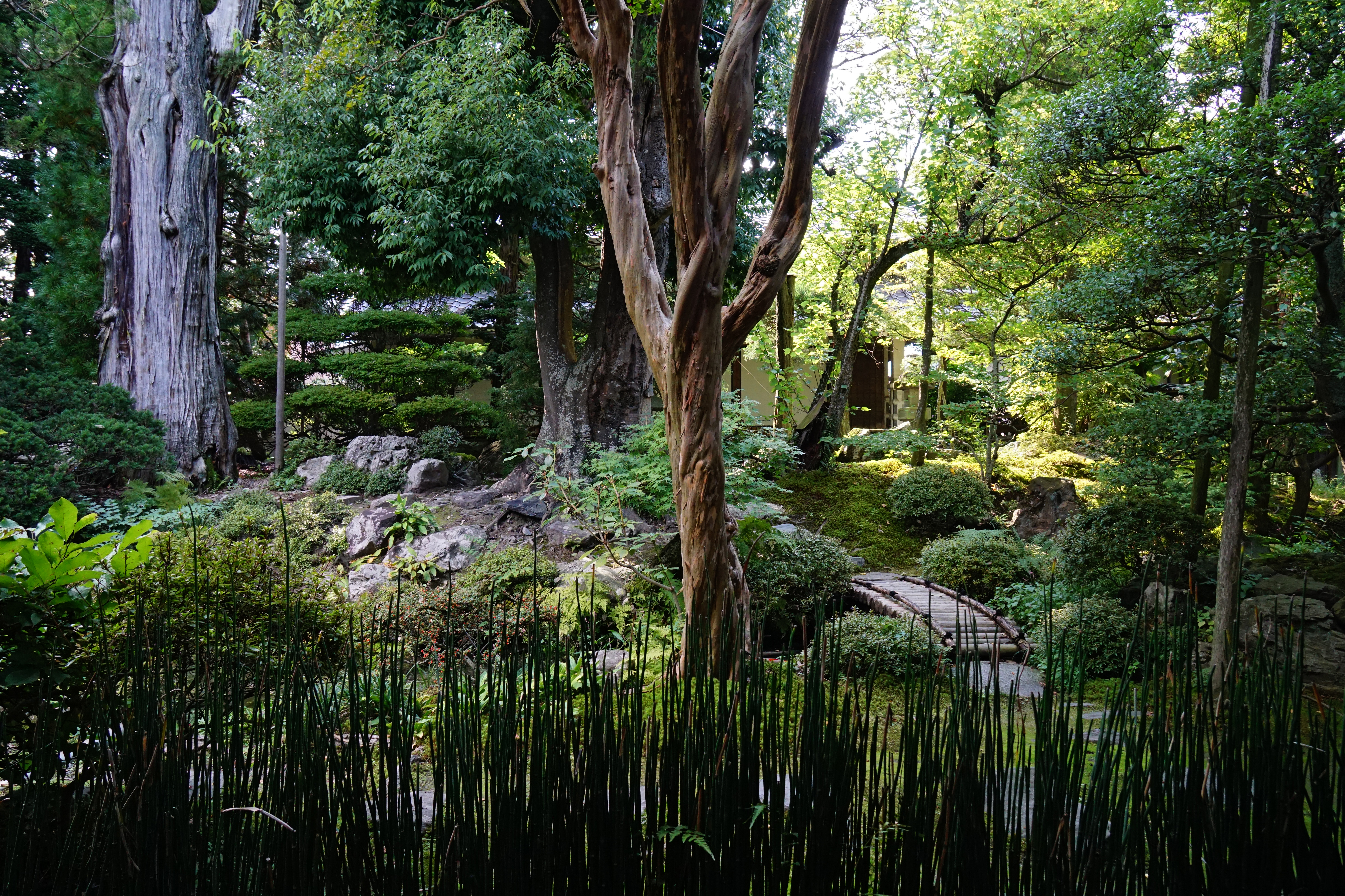 Todoroki House in Azumino, Nagano prefecture, Japan